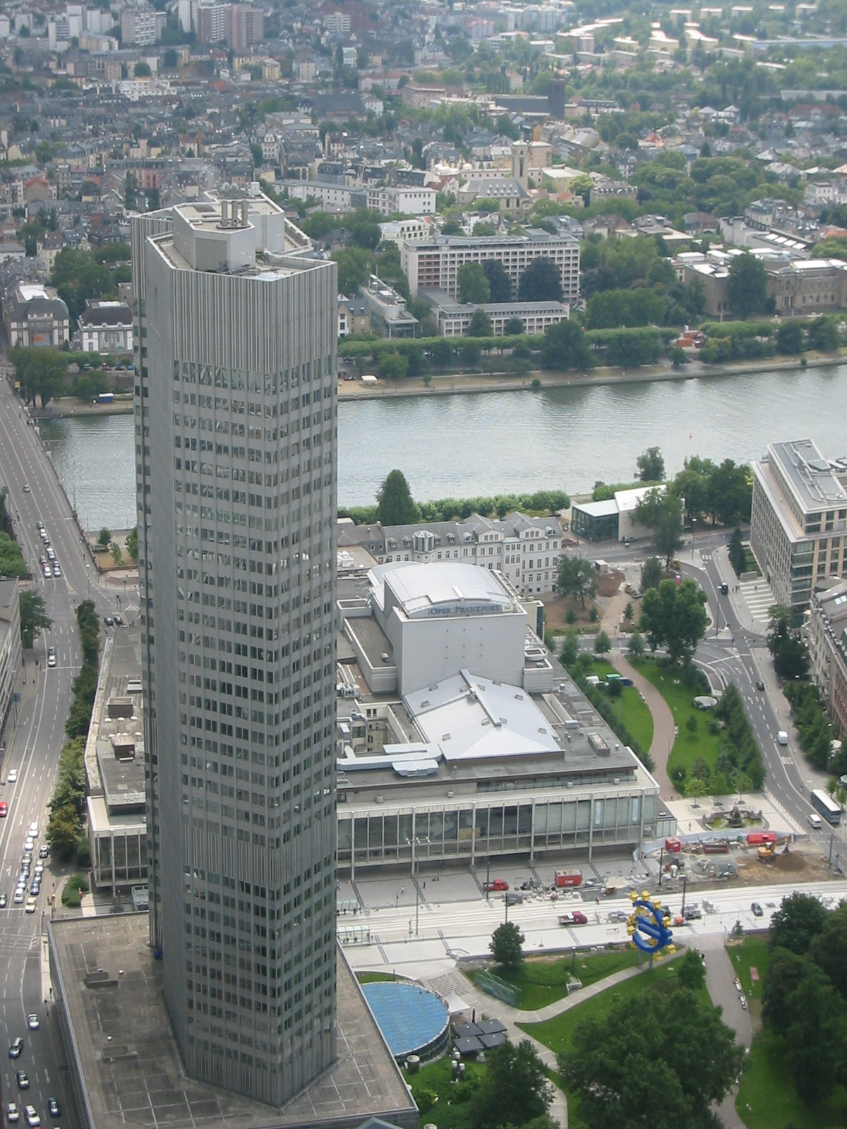 Eurotower, former European Central Bank from up